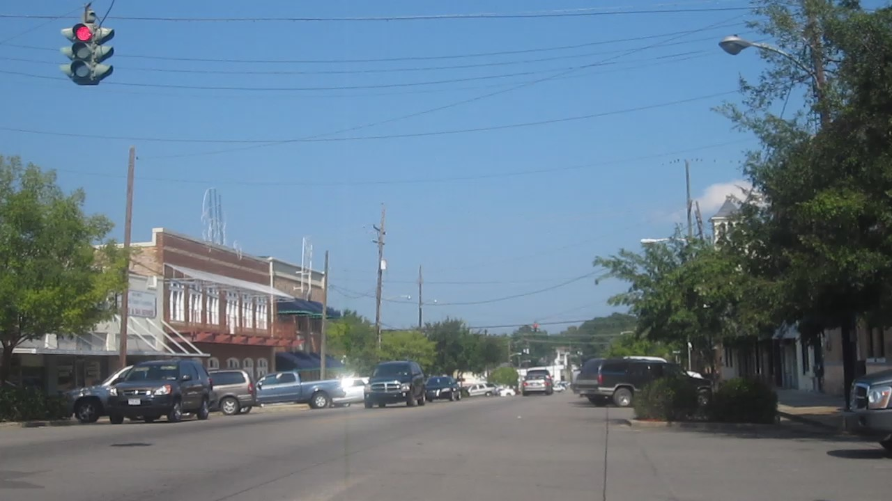 Downtown Winnfield, LA